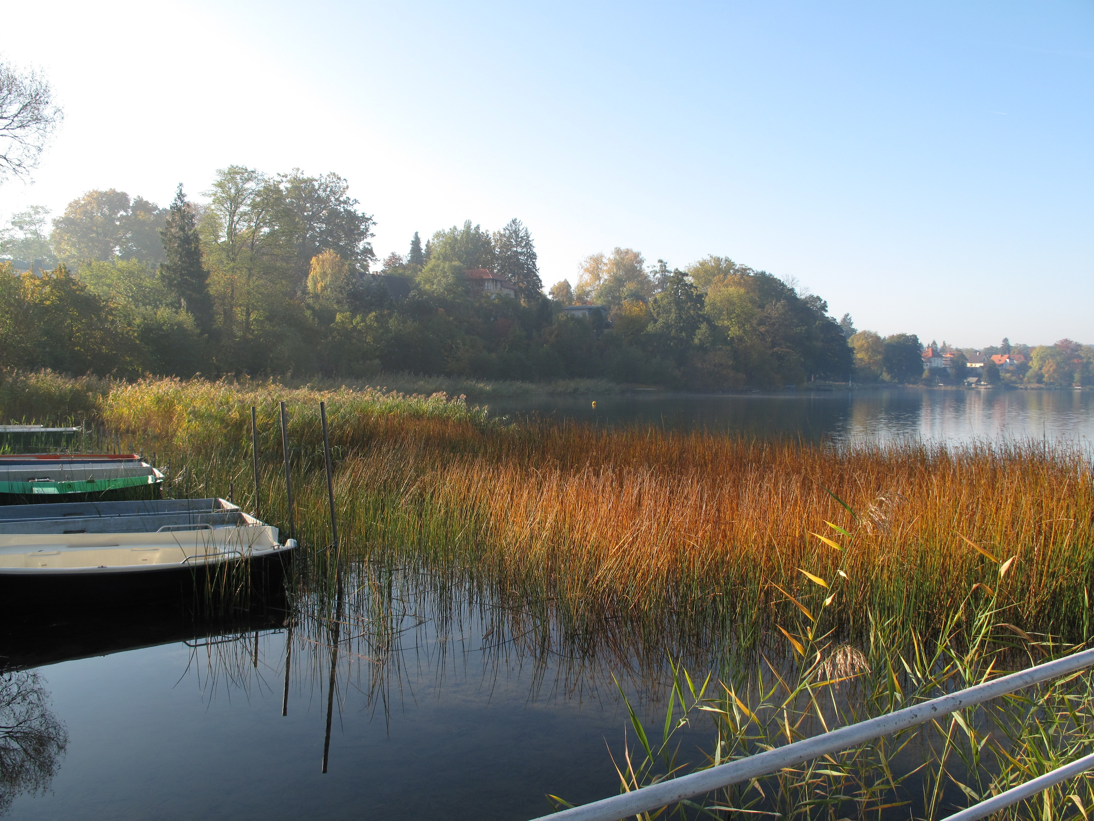 Northeastern shore of the Schermützelsee. The Schermützelsee is a lake in Buckow, District Märkisch-Oderland, Brandenburg, Germany. The lake covers 137 hectare and is the largest water in the hill country „Märkische Schweiz“ and in the Märkische Schweiz Nature Park.